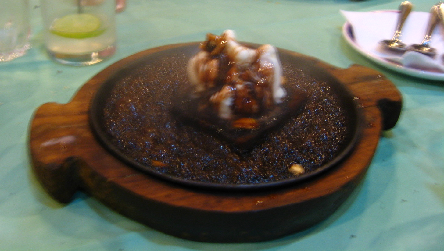 Sinfully chocolate-y and delicious